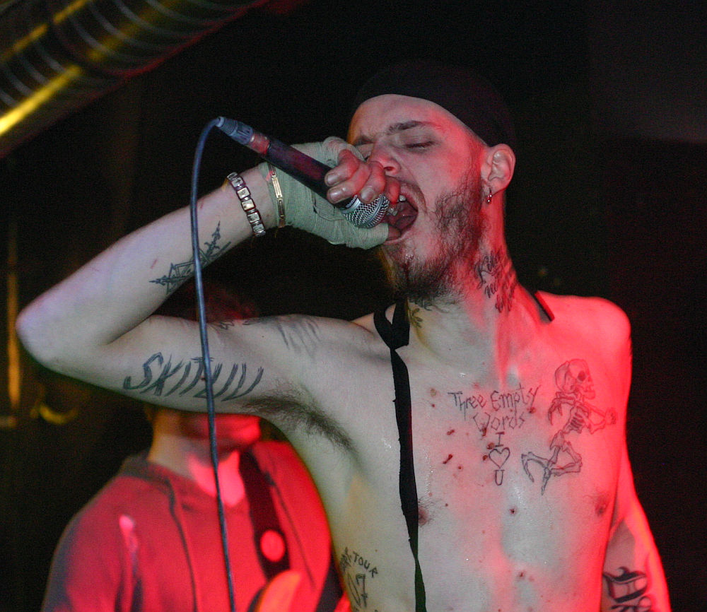 Musician Kvarforth during a gig in Escape-Metalcorner, Vienna, Austria (Dec 19th, 2007)